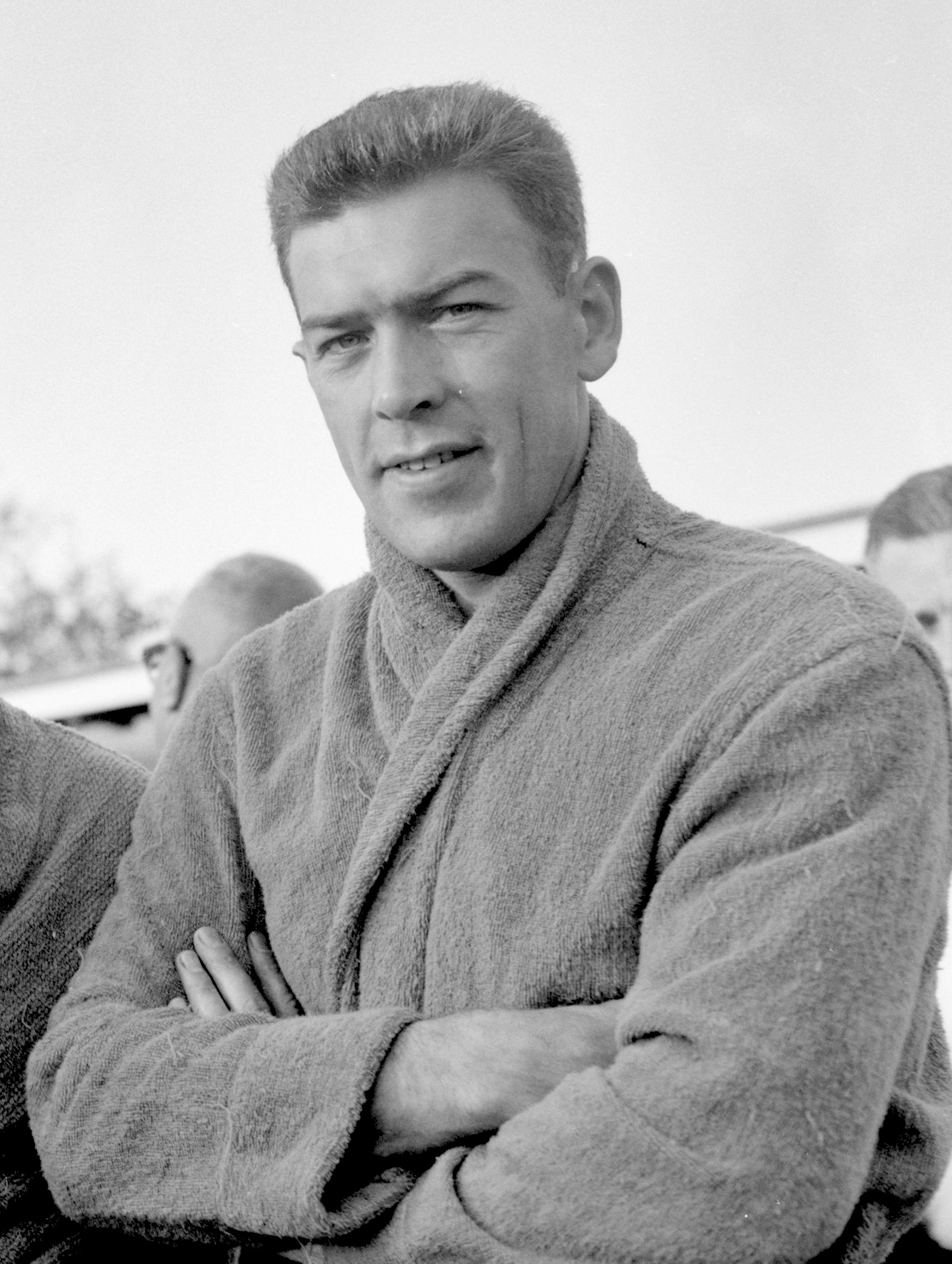 Ben Kniest